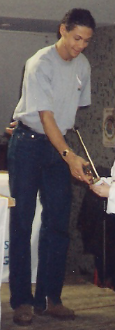 Martin Pringle during an award ceremony for Helsingborgs IF's youth players.